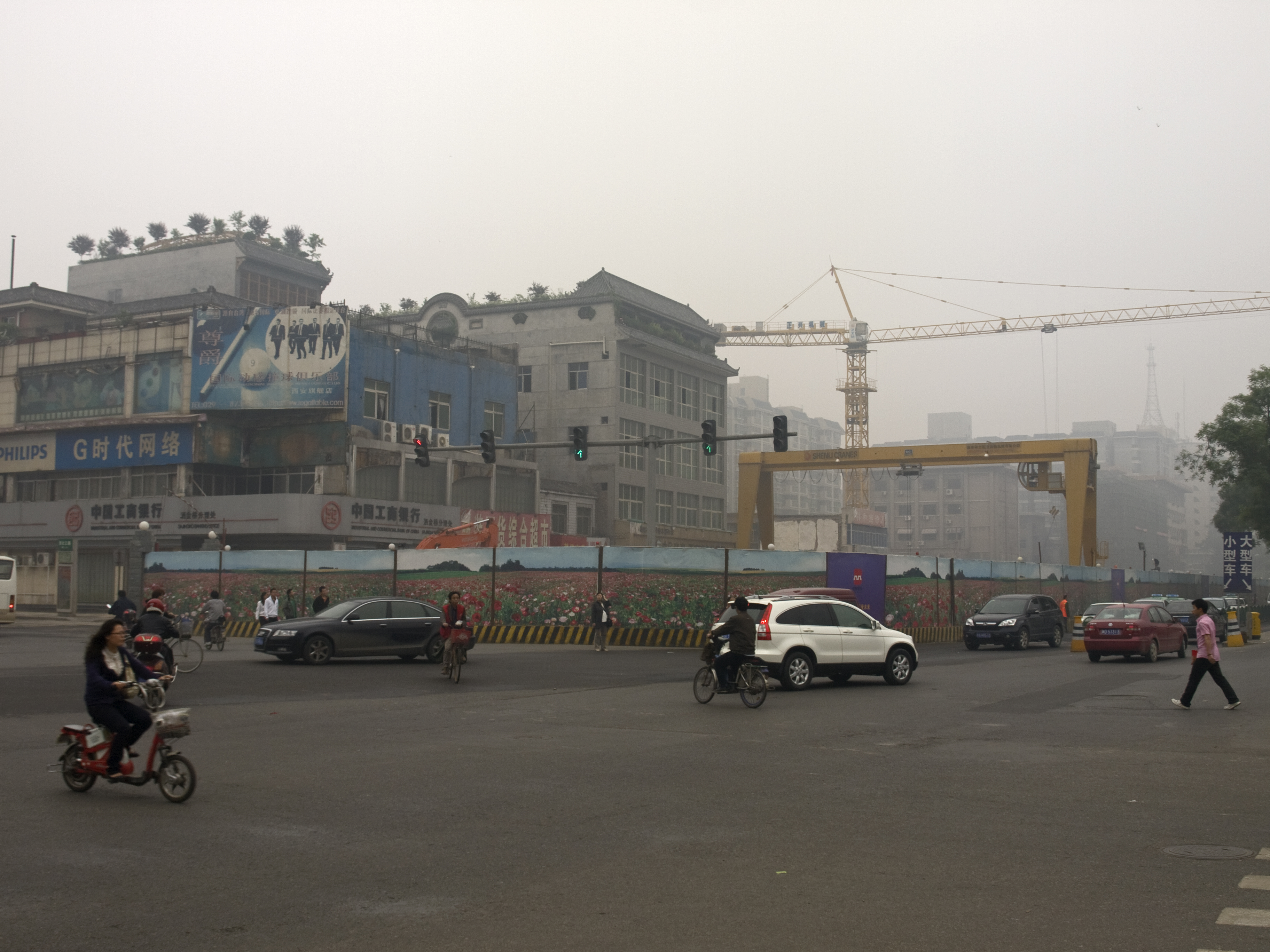 Construction of Sajinqiao subway station, Xian